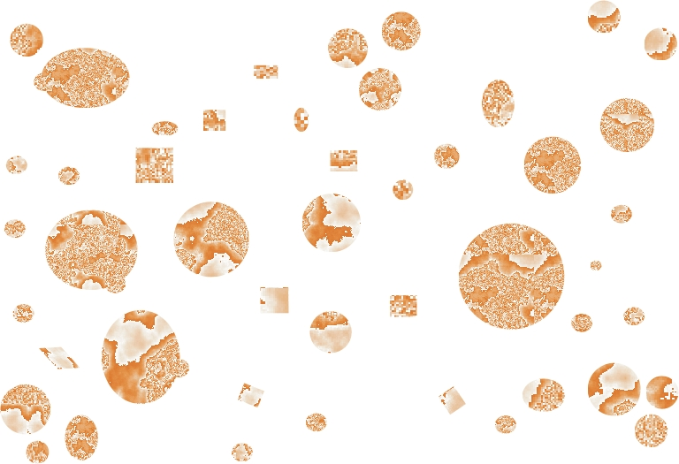 A Polydisperse collection of objects. These objects have a widely varying set of sizes, shapes and surface characteristics.